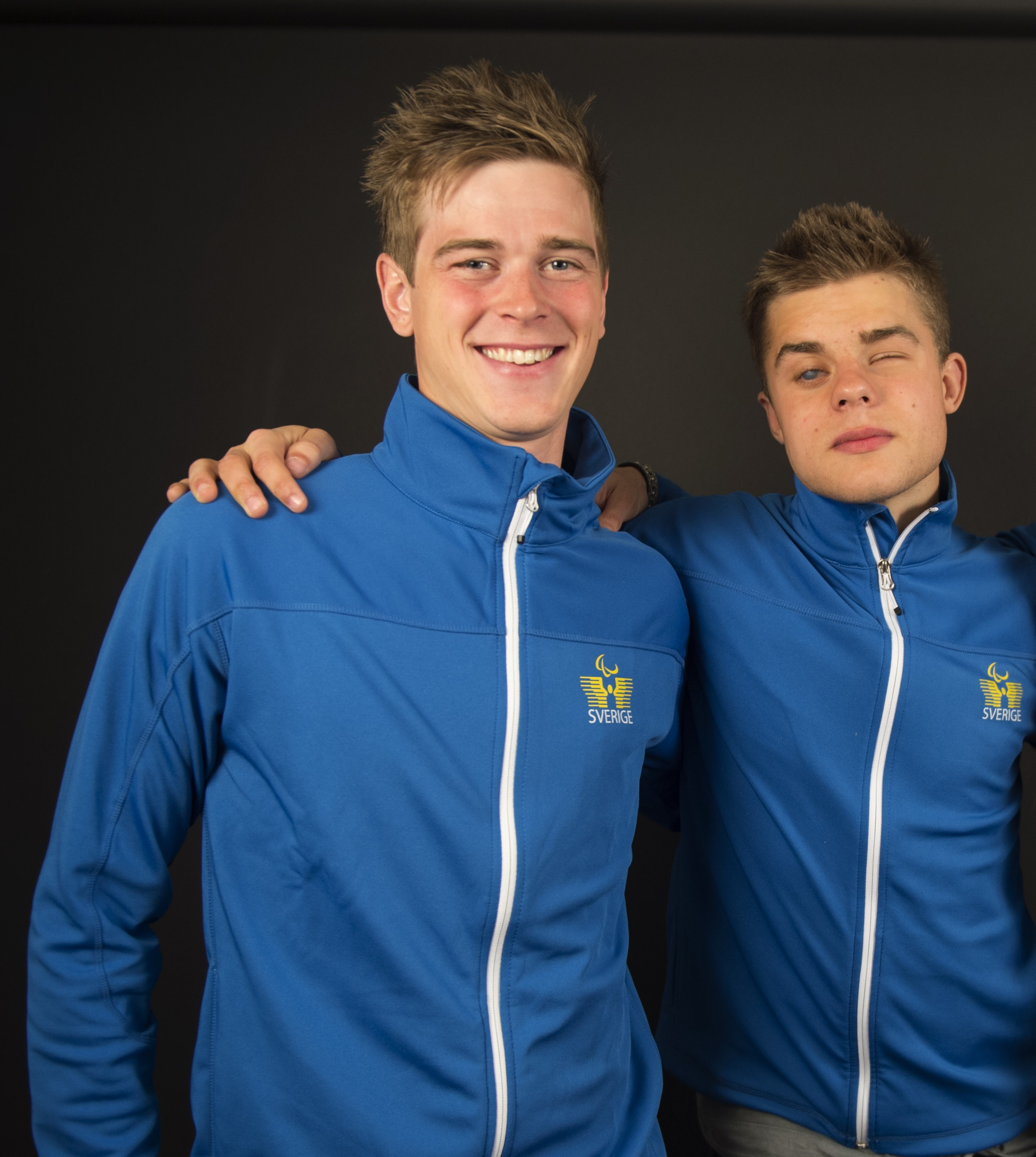 Paralympc cross-country skier Zebastian Modin (right) with his sighted guide Albin Ackerot.